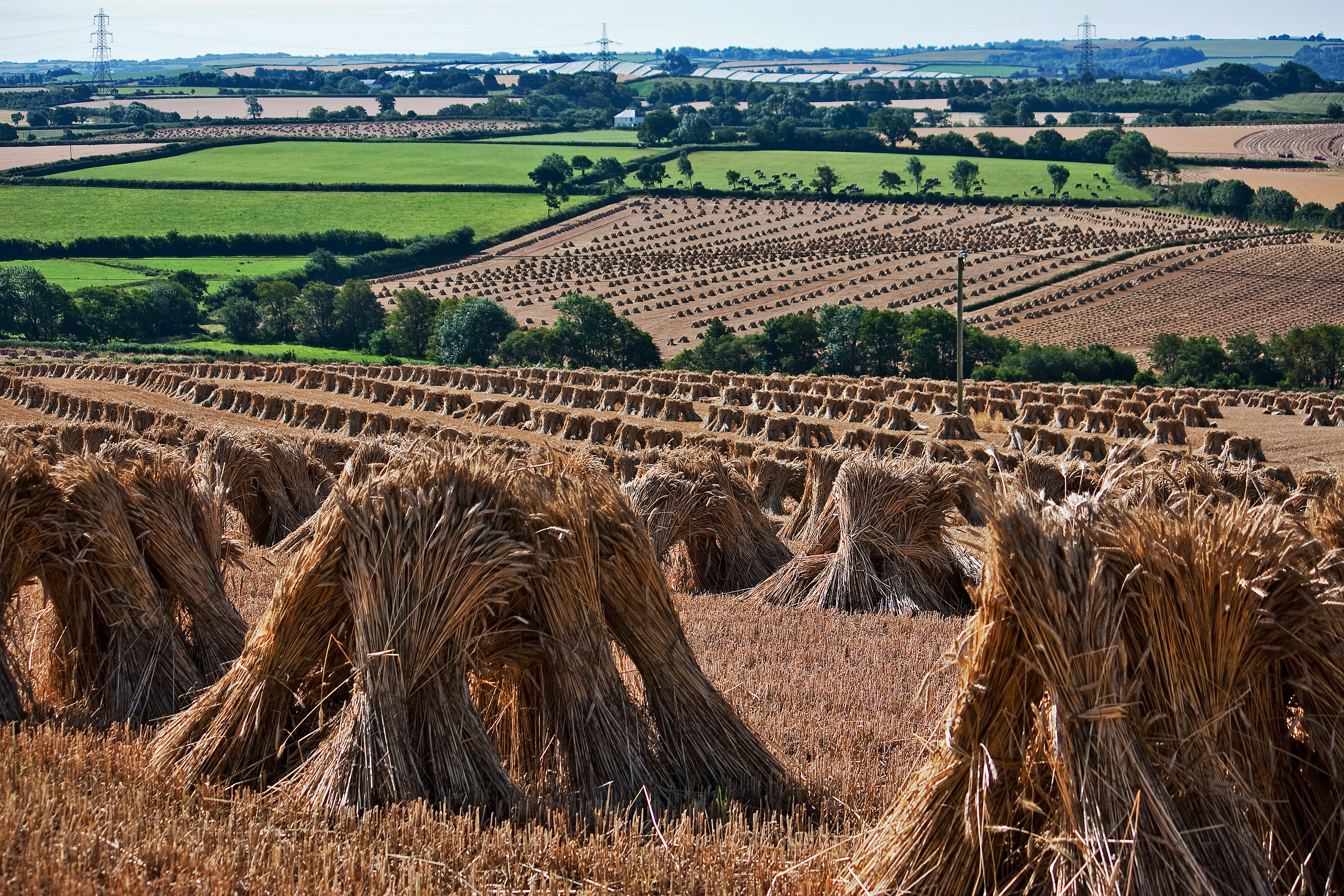 Stooks (groups of sheaves) near South Molton, on the western edge of Exmoor. Some wheat is harvested in this traditional way to provide thatching straw.